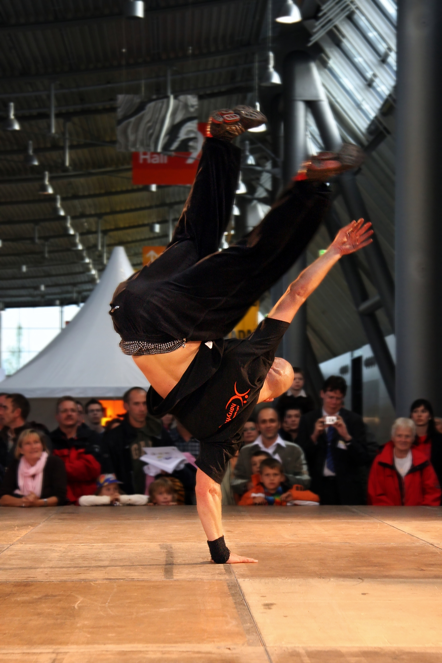 A Breakdancer (Battle Toys) showing a pike.